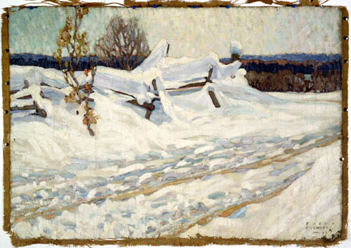 Franklin Carmichael, A Muskoka Road, 1915, oil on canvas, 70.2 x 101.9 cm